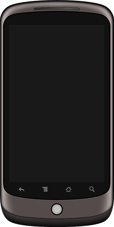 A mockup of the Google Nexus One